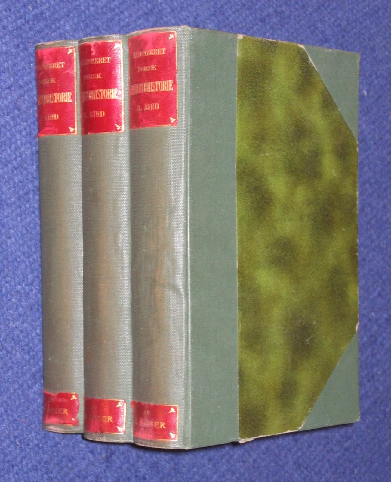 Book covers of Illustreret norsk Literaturhistorie (illustrated history of Norwegian literature), 3 volumes, 1896, by Henrik Jæger and Otto Anderssen.